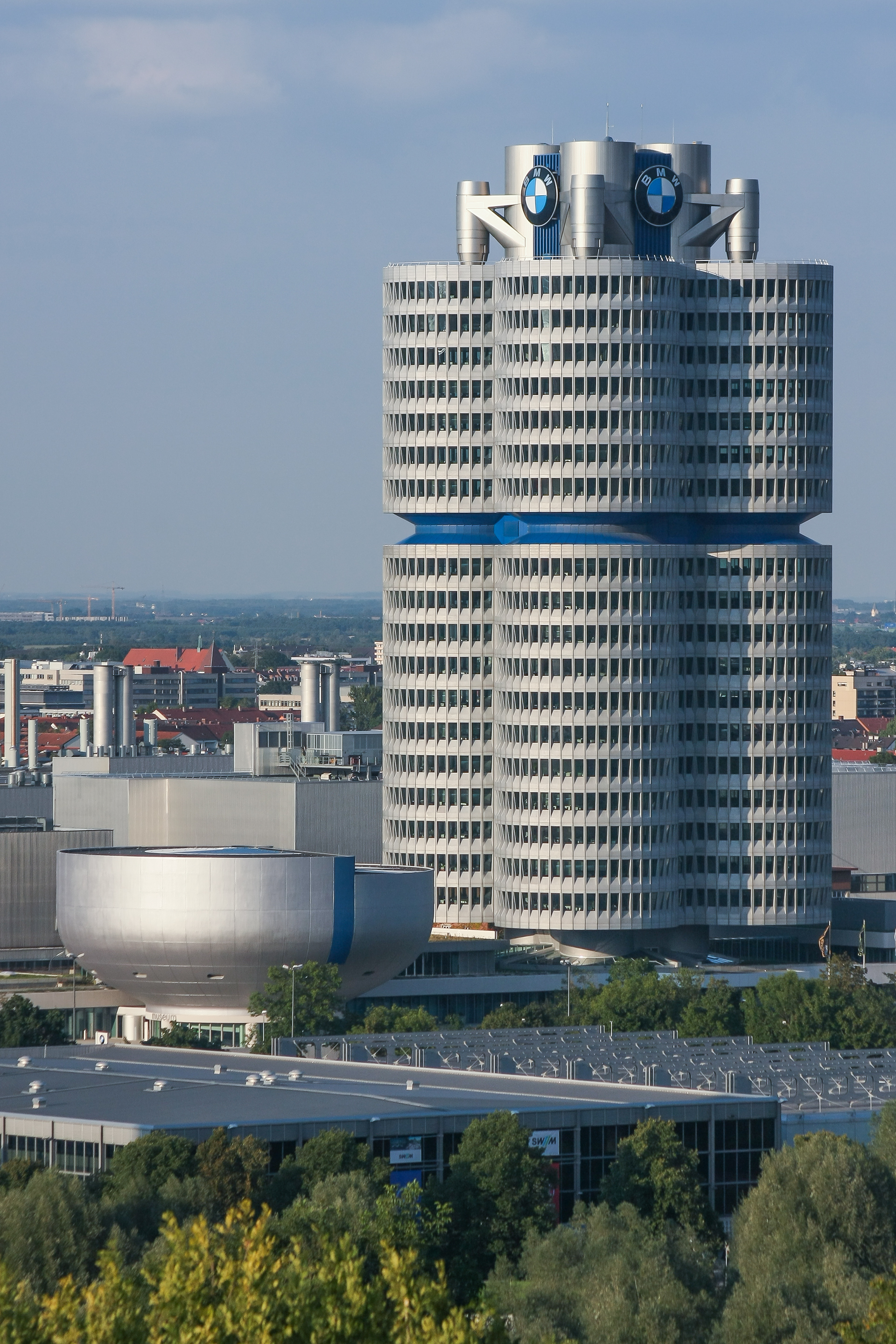 BMW Museum und BMW Headquarters "Vierzylinder"